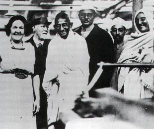 26th September 1931 at the Greenfield mill, at Darwen in England. He was there to meet the leaders of Lancashires Cotton Trade Association for the Round Table conference held that week.